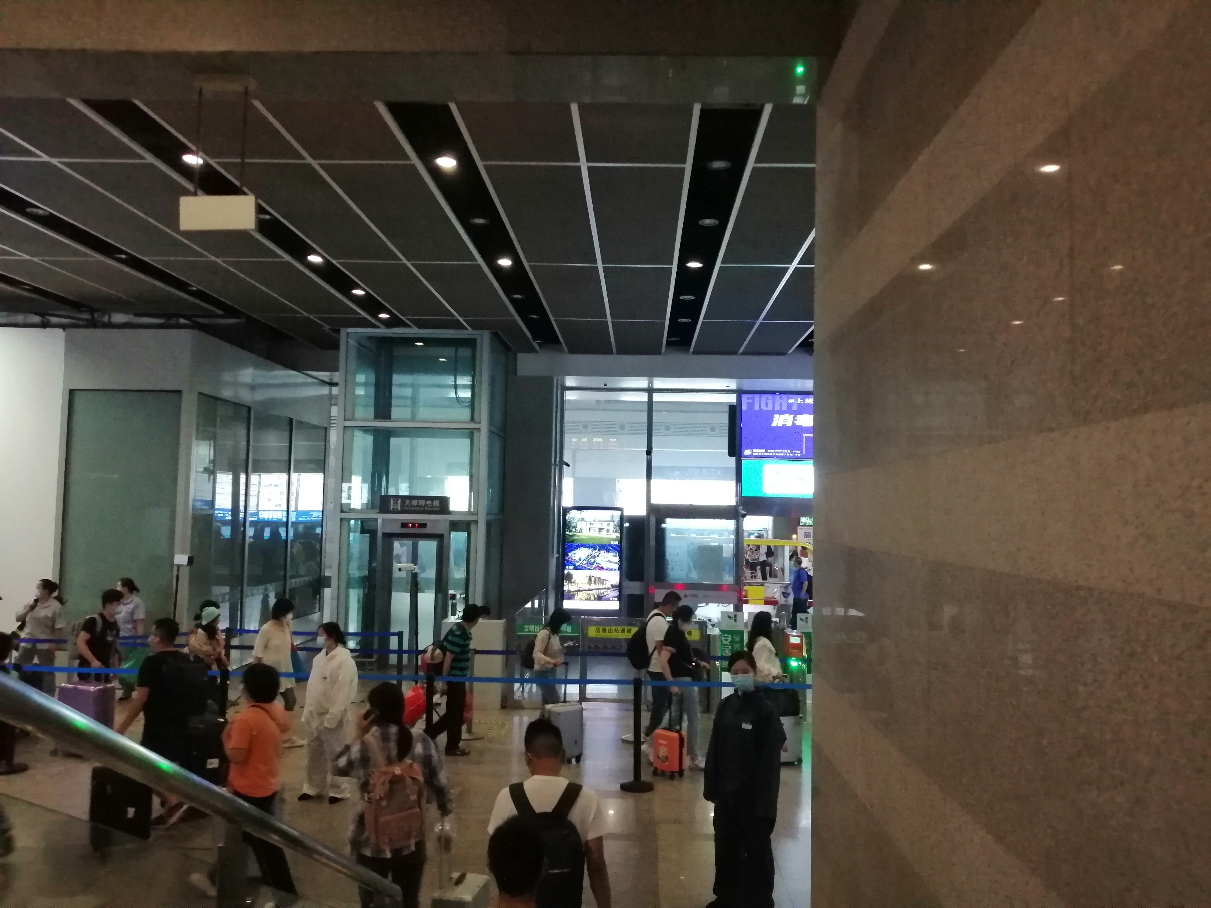 All arrival passengers check temperature and exit the station.